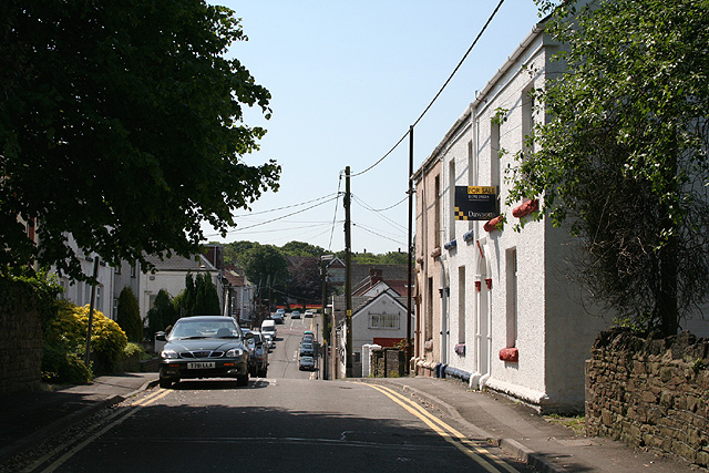 Gowerton: Church Street. Looking south